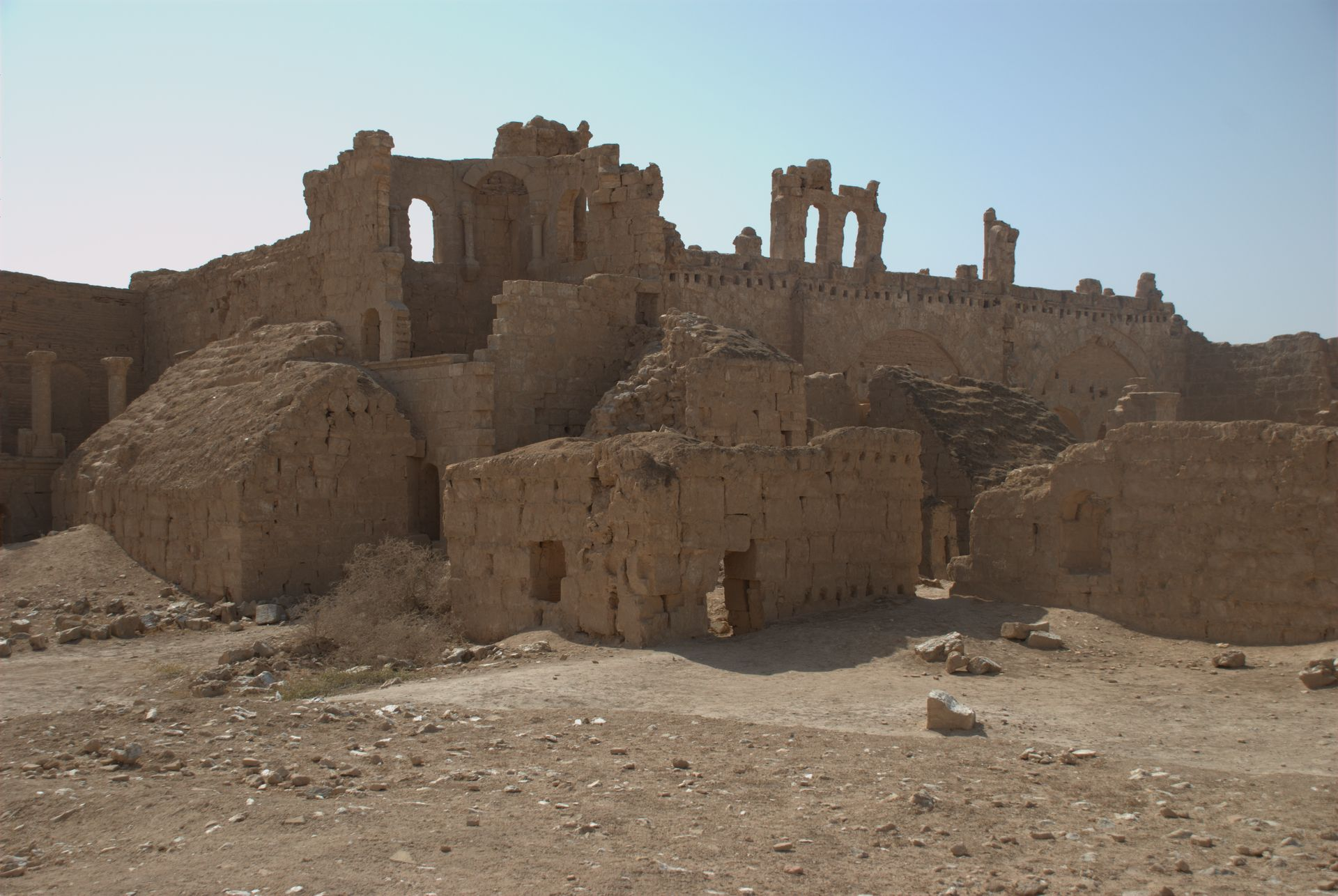 Resafa, Syria, Basilica A from northeast